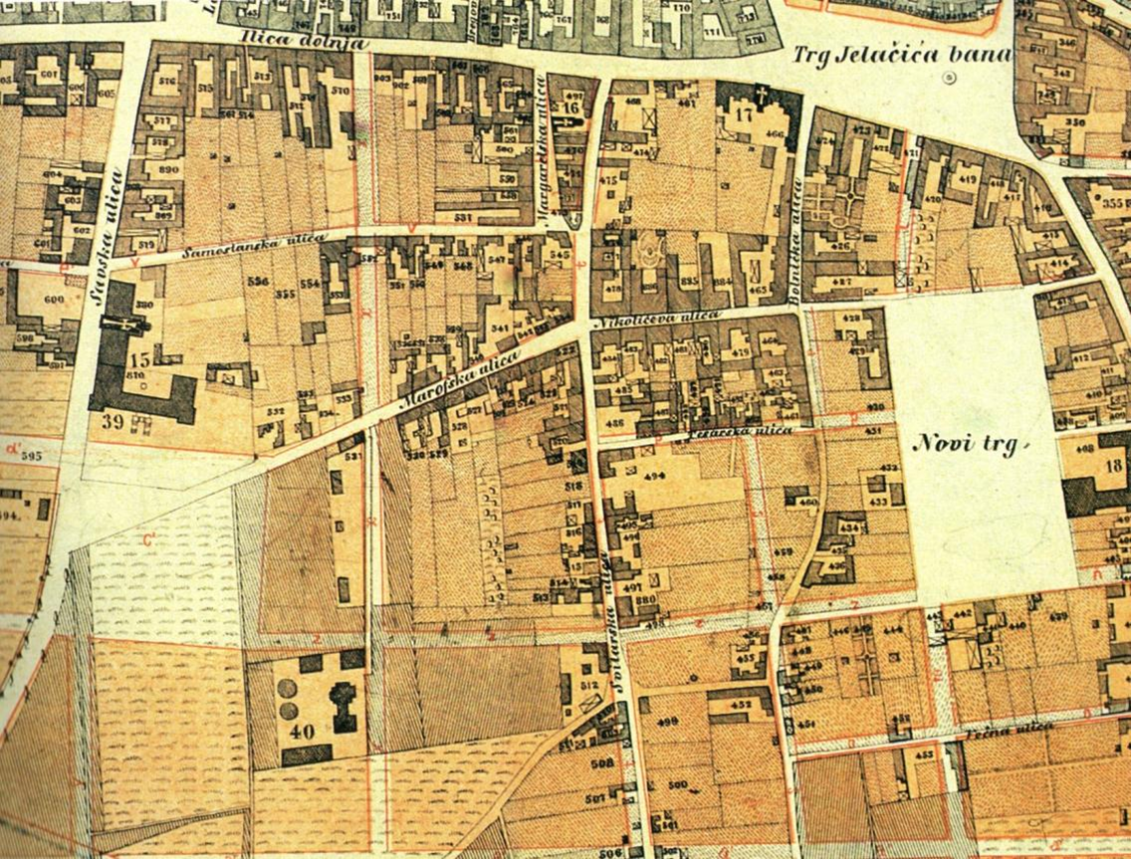 A detail of the first development plan of Zagreb